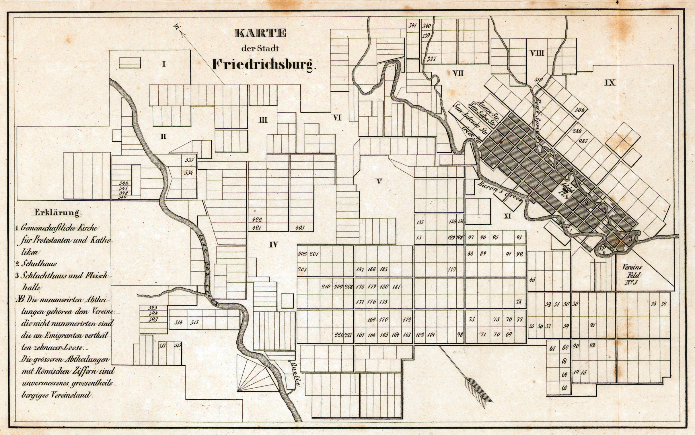 This town plan was part of a packet of materials published in 1851 by the Verein zum Schutze Deutscher Auswanderer nach Texas (Society for the Protection of German Emigrants to Texas, also known as the Adelsverein or Society of Nobles headquartered in Mainz and Wiesbaden). The port town and harbor of Indianola and the towns of New Braunfels and Fredericksburg all figured prominently in this project to settle hundreds of German emigrants in Texas during the 1840s and early 1850s. Employees of the Adelsverein who probably prepared these maps included Hermann Willke (ca.1822-after 1865), a young surveyor-engineer and Prussian army veteran and possibly Nicolaus Zink (1812-1887), also a surveyor-engineer and Bavarian army veteran who laid out the colony's town of New Braunfels.